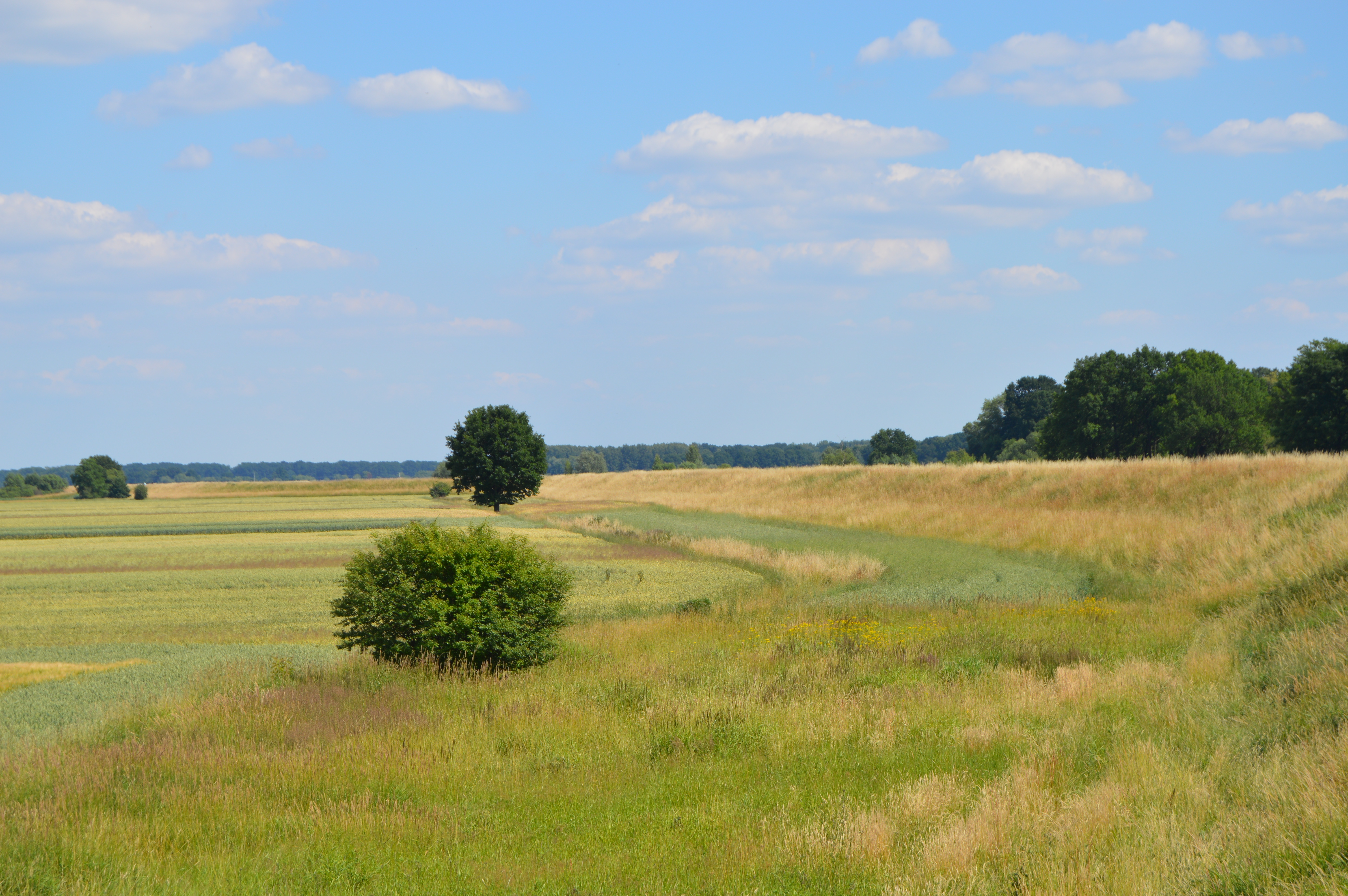 Plain to the north of Brzeg, on the way to Pisarzowice.